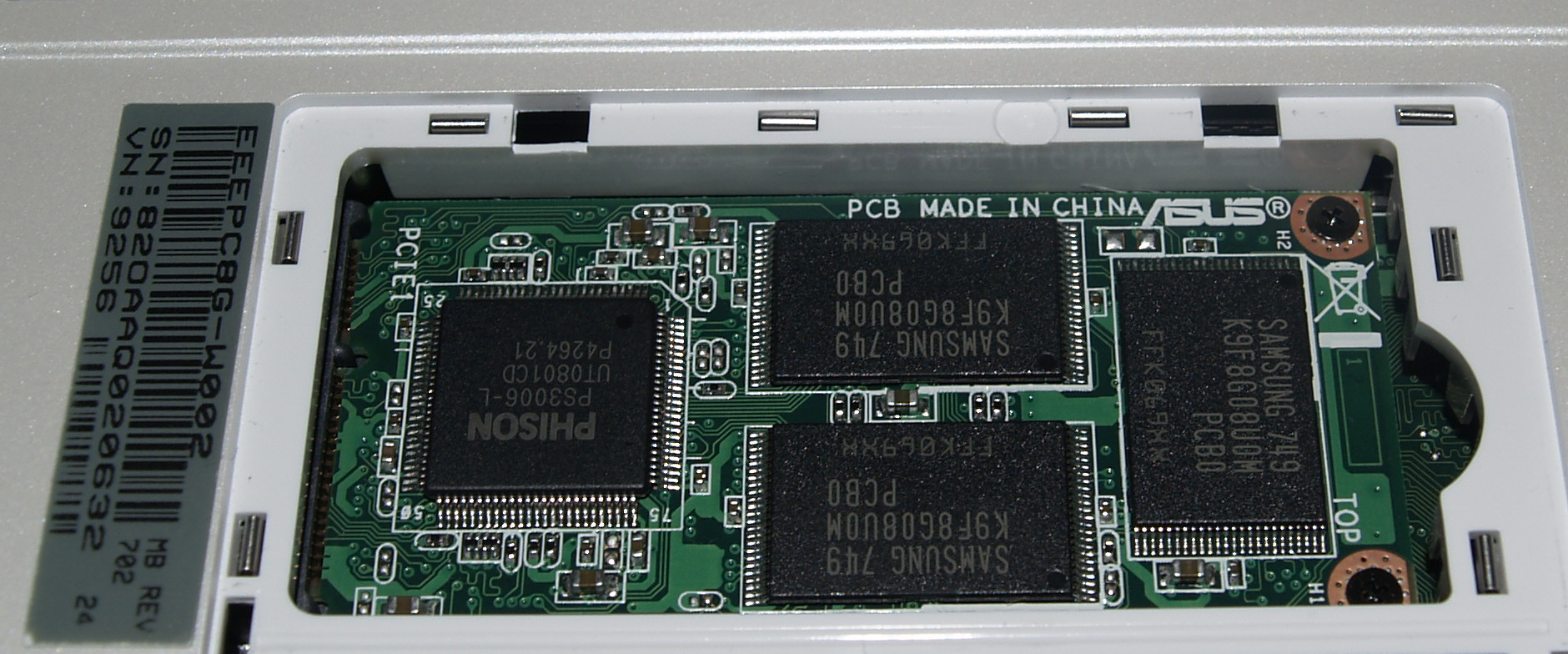 SSD In 8GB Asus Eee PC